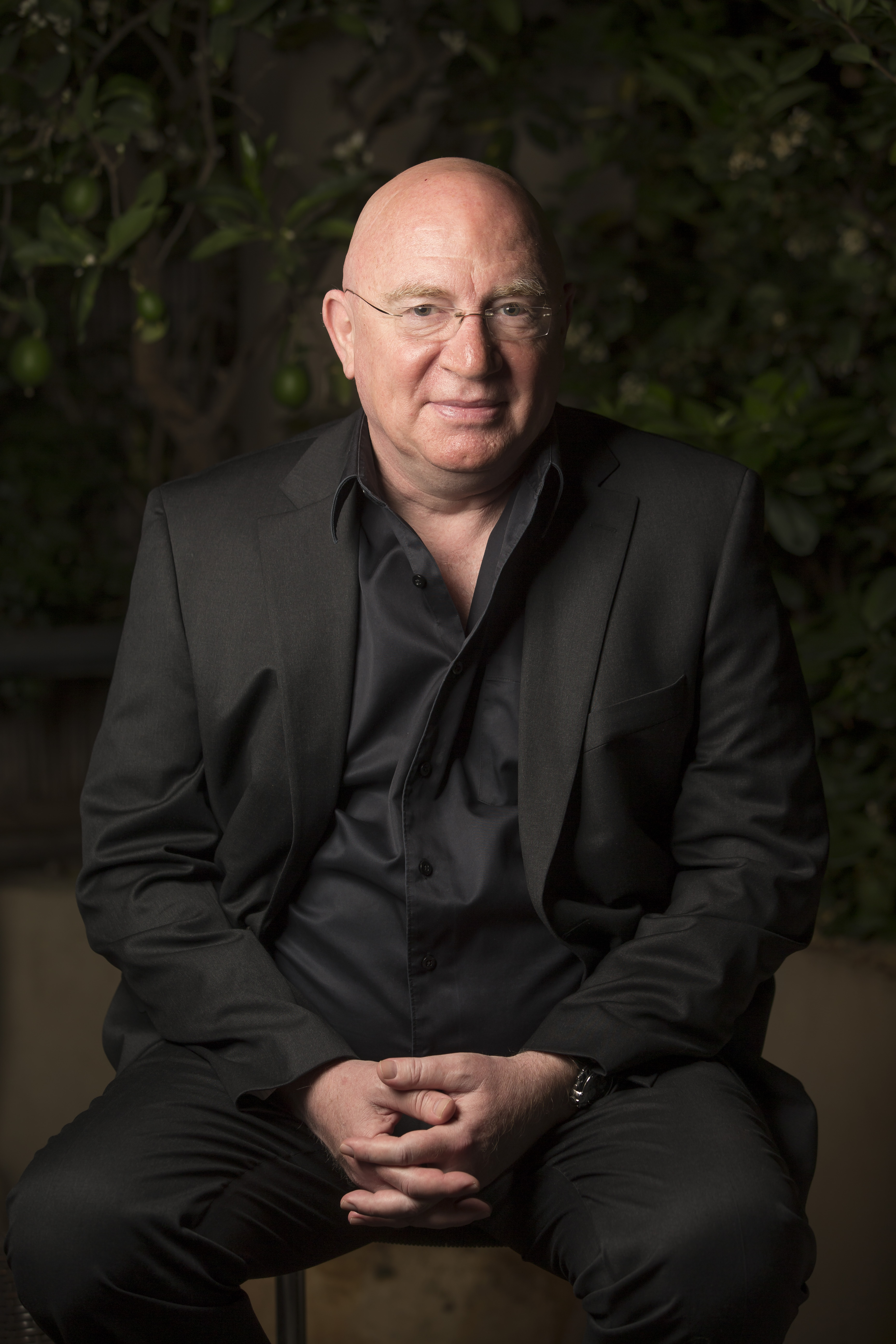 Carlo Strenger, fotografiert von Rami Zarnegar, Februar 2016